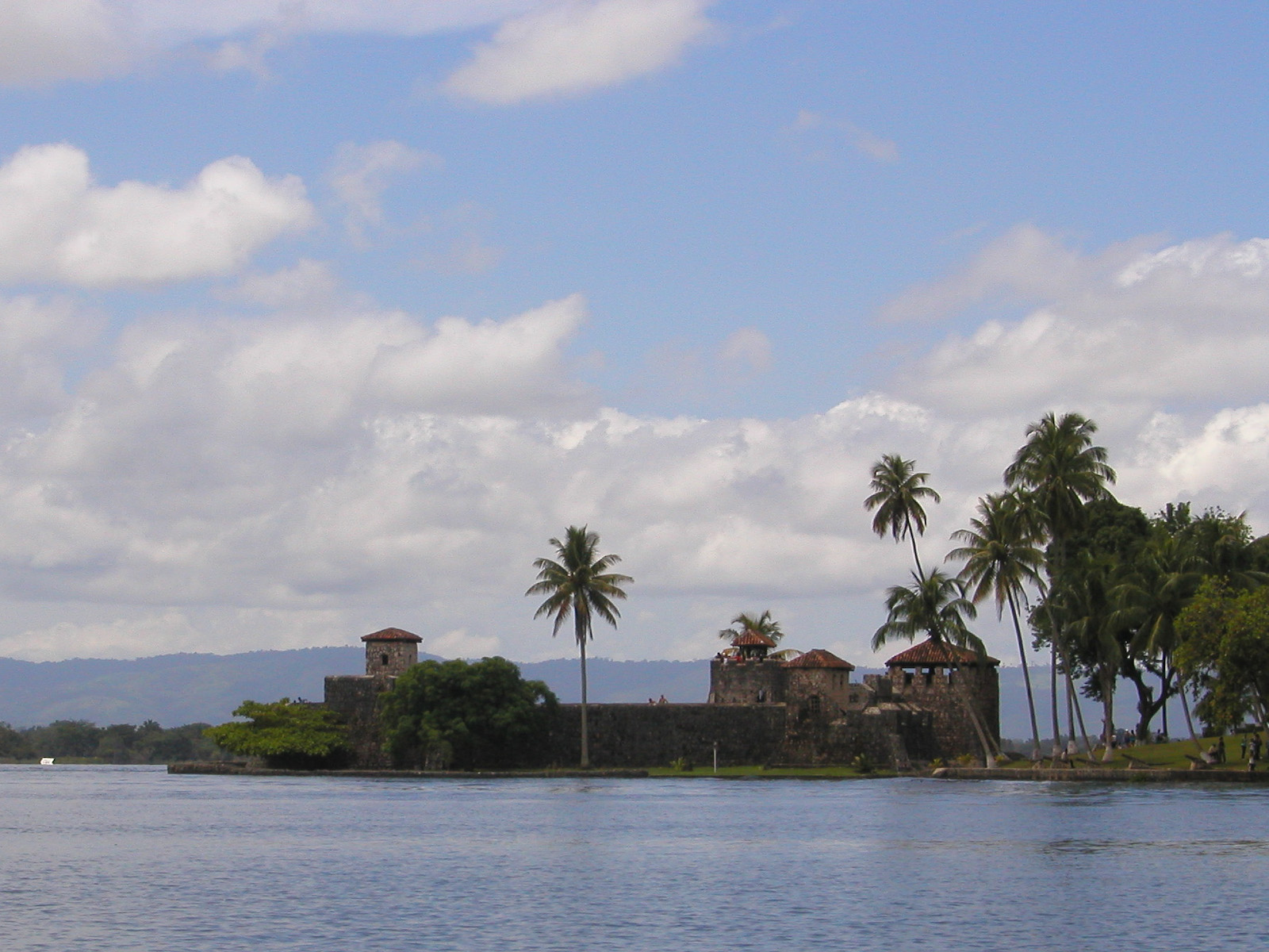 Castillo de San Felipe de Lara, Lake Izabal, Guatemala.